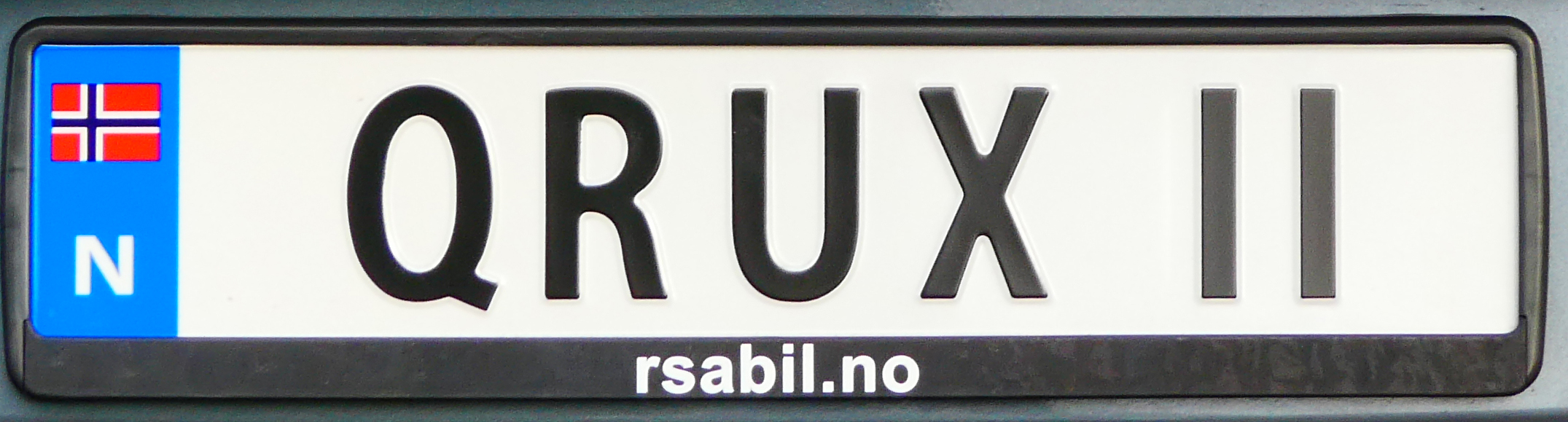 The image represents a personalized Norwegian plate without the district identification letters